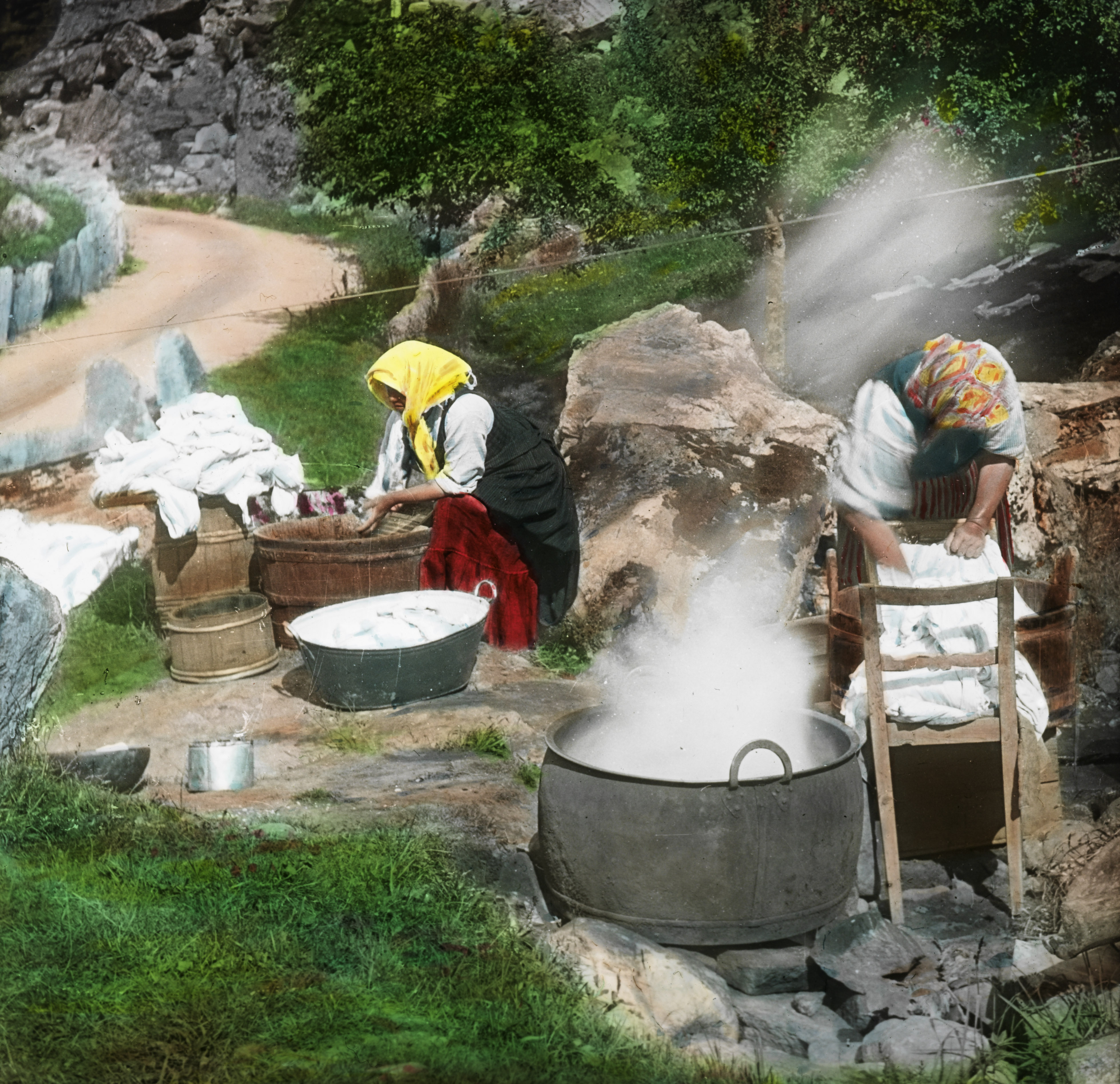 Hand tinted lantern slides depicting popular tourist destinations in Norway around the turn of the 19th century. The collection consists of slides produced by at least two British photographers – professional photographer Samuel J. Beckett and amateur photographer P. Heywood Hadfield. More on the collection here.